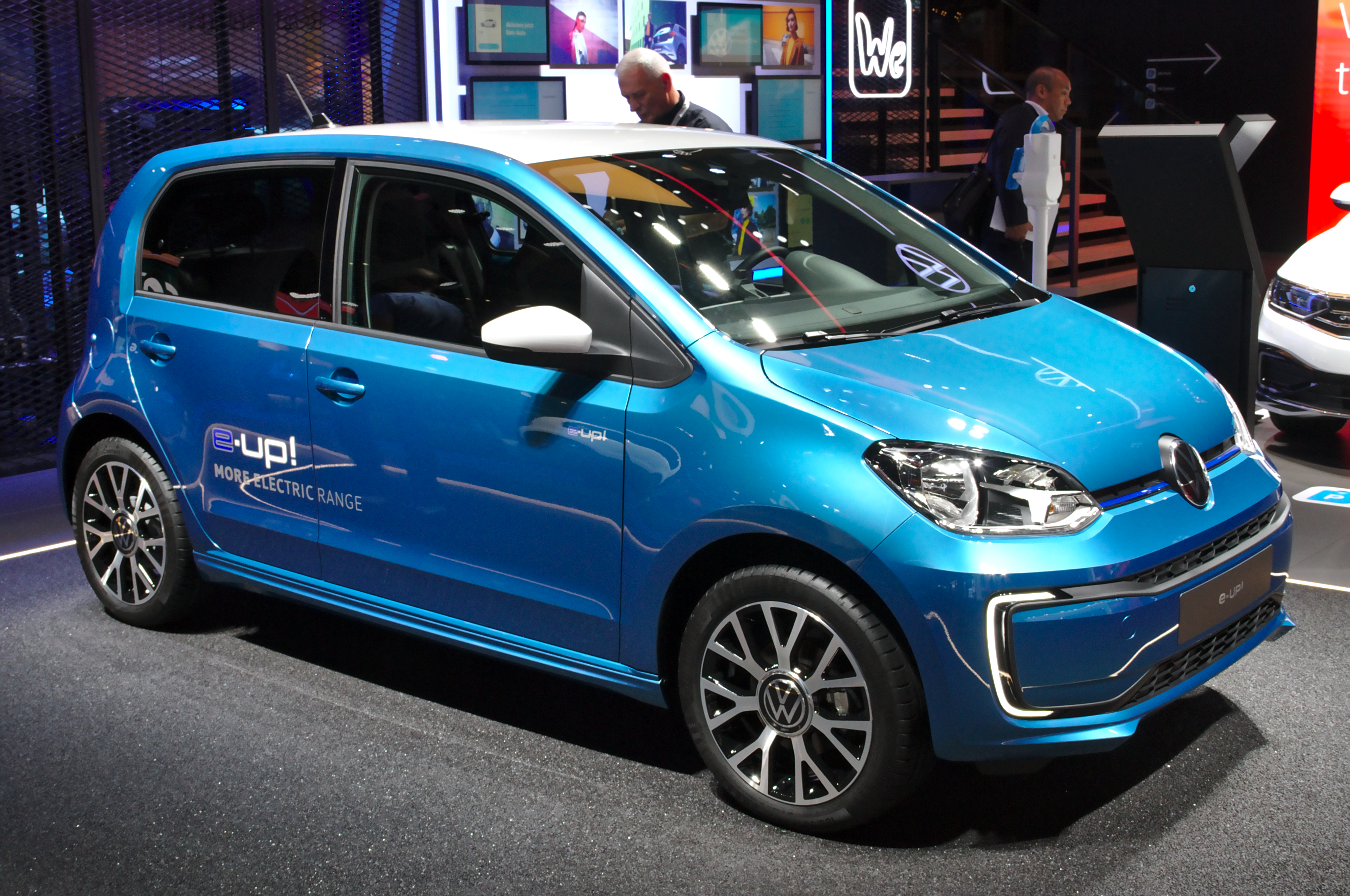 Volkswagen_e-up! at IAA 2019